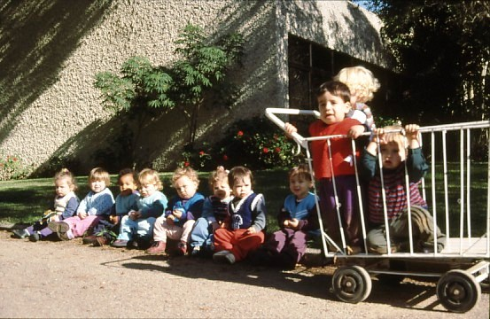 Gan-Shmuel sh1- 14, Education in Israel